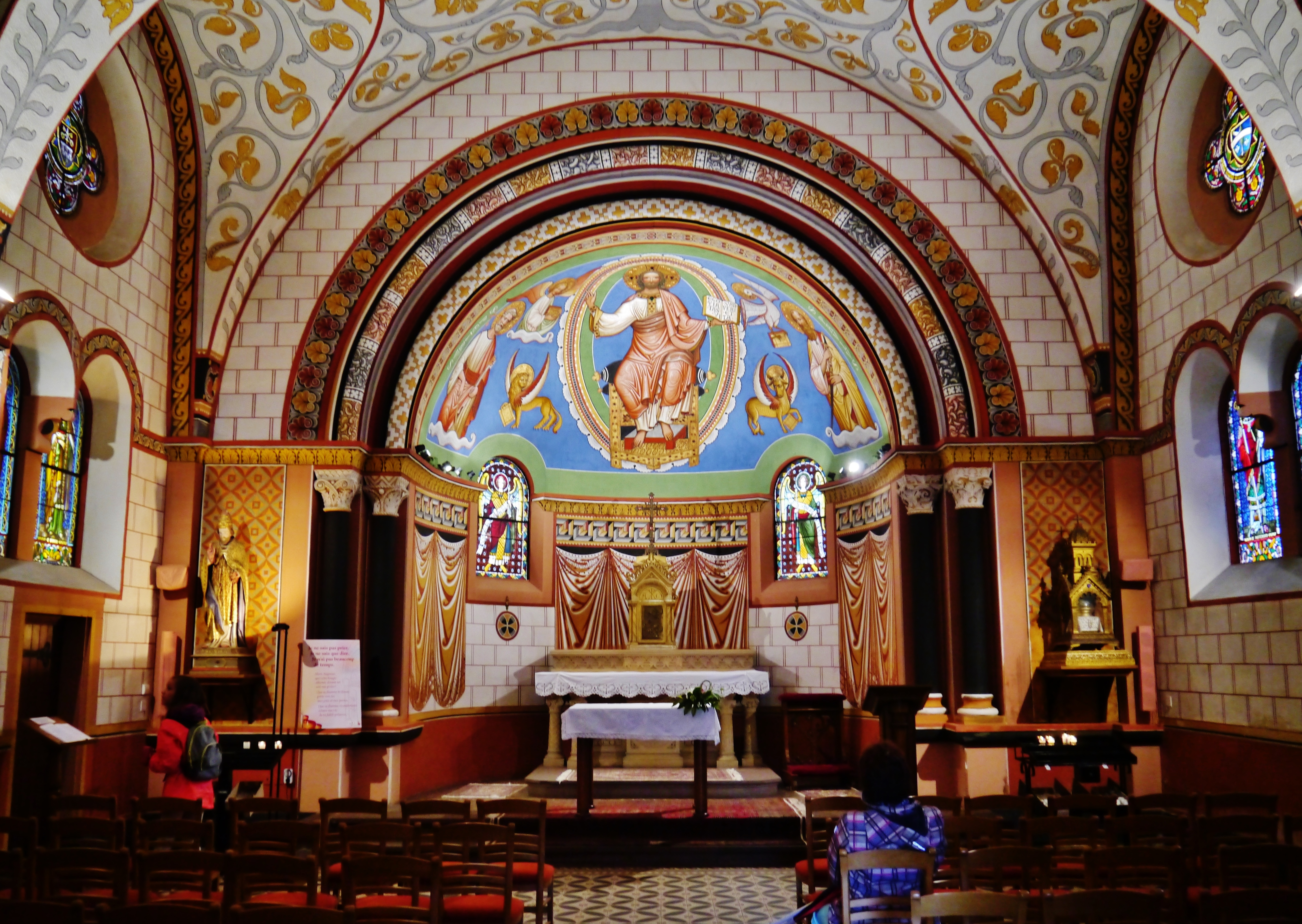 Nave of St. Leo, Eguisheim, Alsace, France